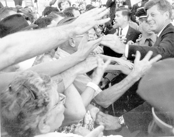 Persistent URL: Local call number: RC09624 Title: John F. Kennedy shaking hands in Miami, Florida Date: November 18, 1963 Physical descrip: 1 photoprint - b&w - 8 x 10 in. Series Title: Repository: 500 S. Bronough St., Tallahassee, FL, 32399-0250 USA, Contact: 850.245.6700